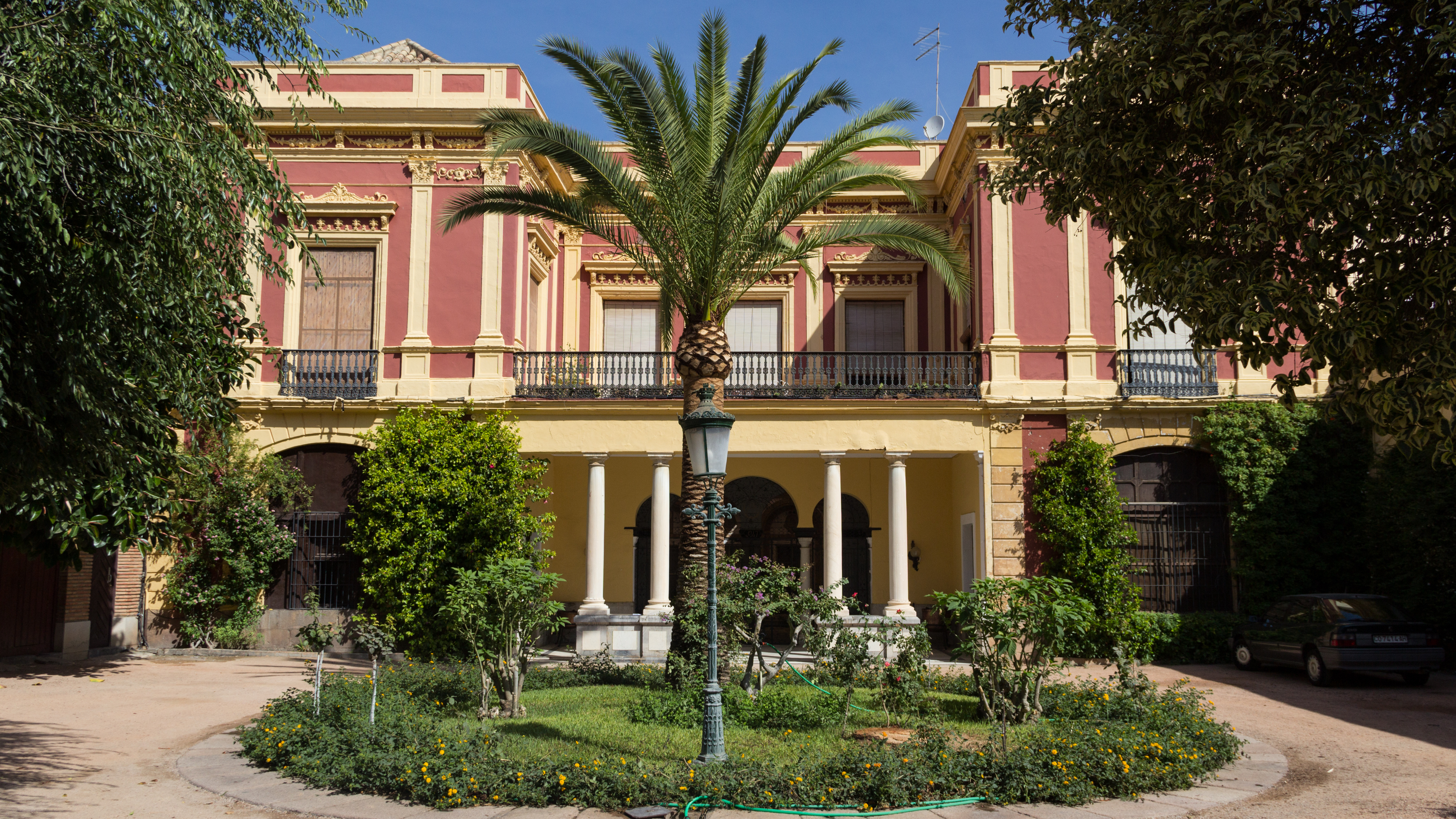 Córdoba, Spain.